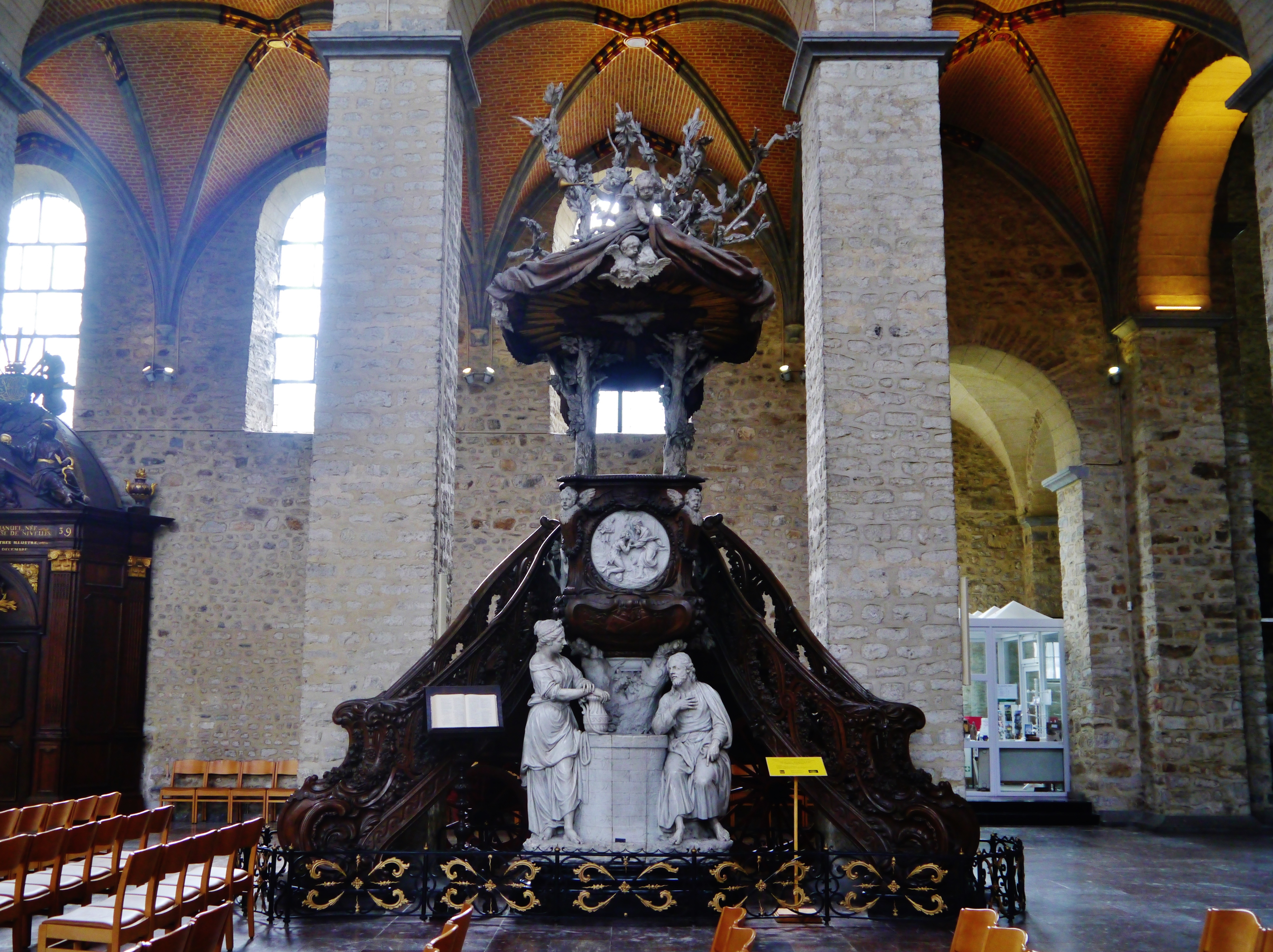 Pulpit of the Collegiate Church St. Gertrude, Nivelles, Province of Walloon Brabant, Wallonia, Belgium